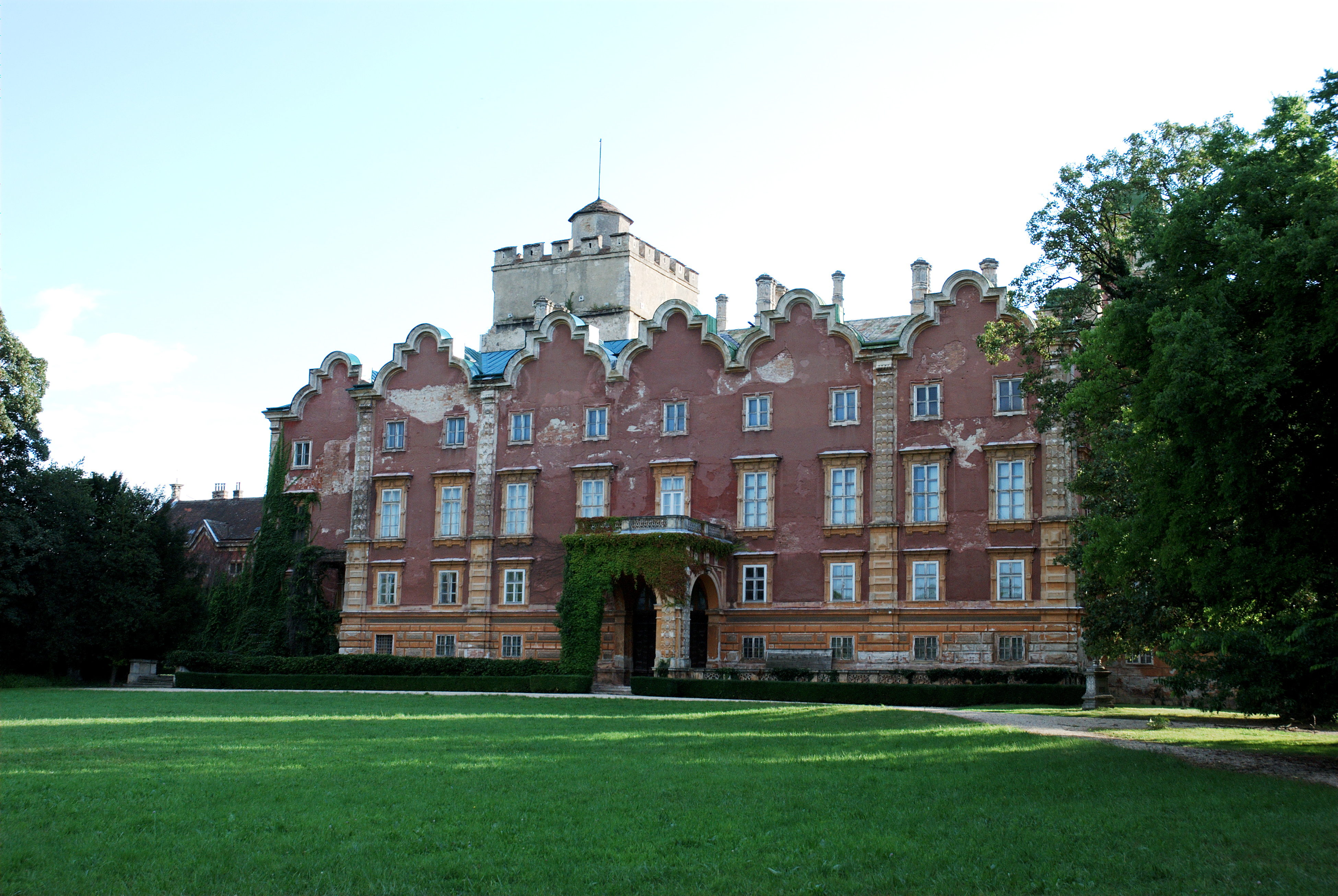 Backside of Schloss Prugg in Bruck an der Leitha, Austria.